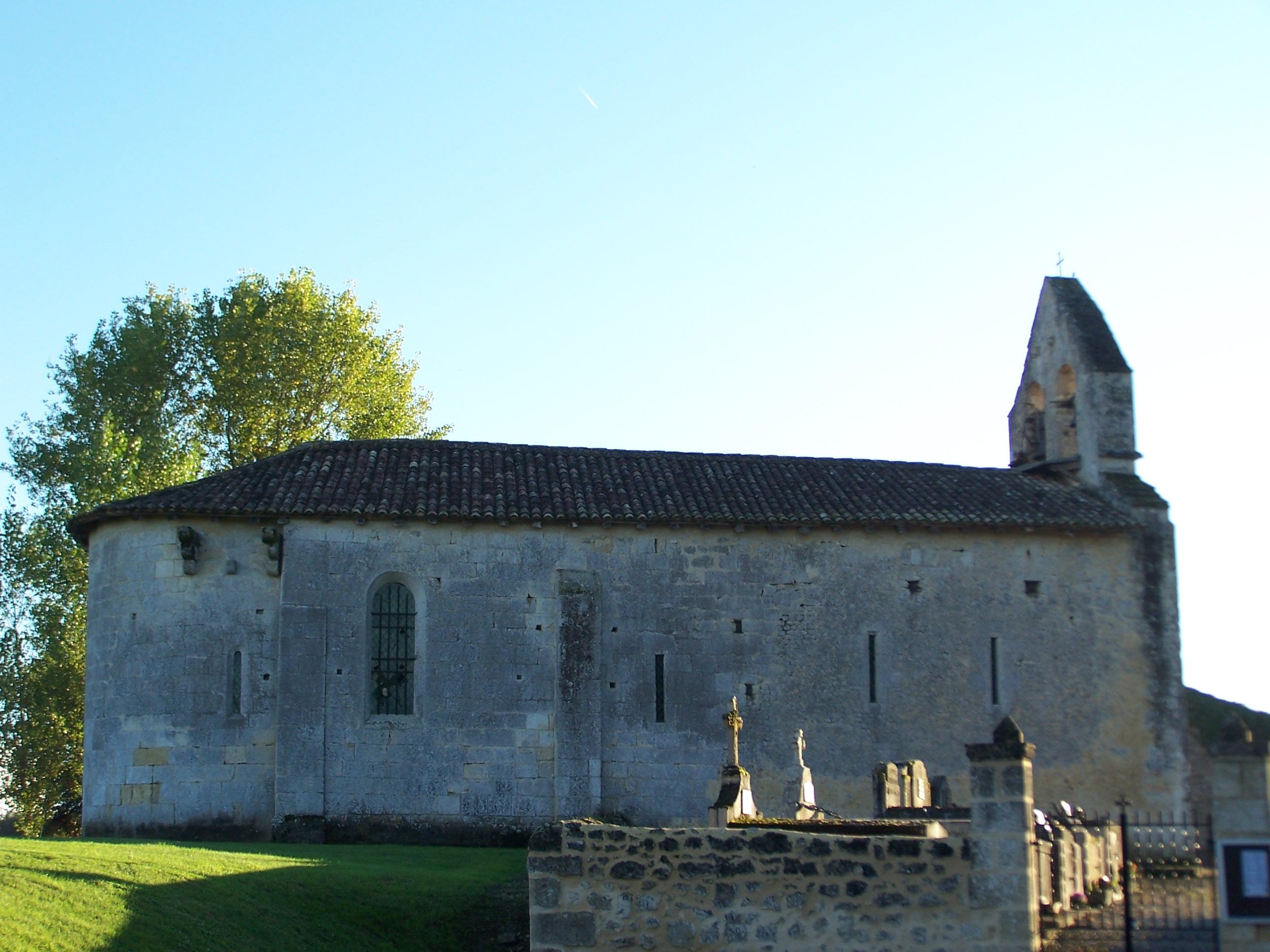 Saint James church of Bellebat (Gironde, France)